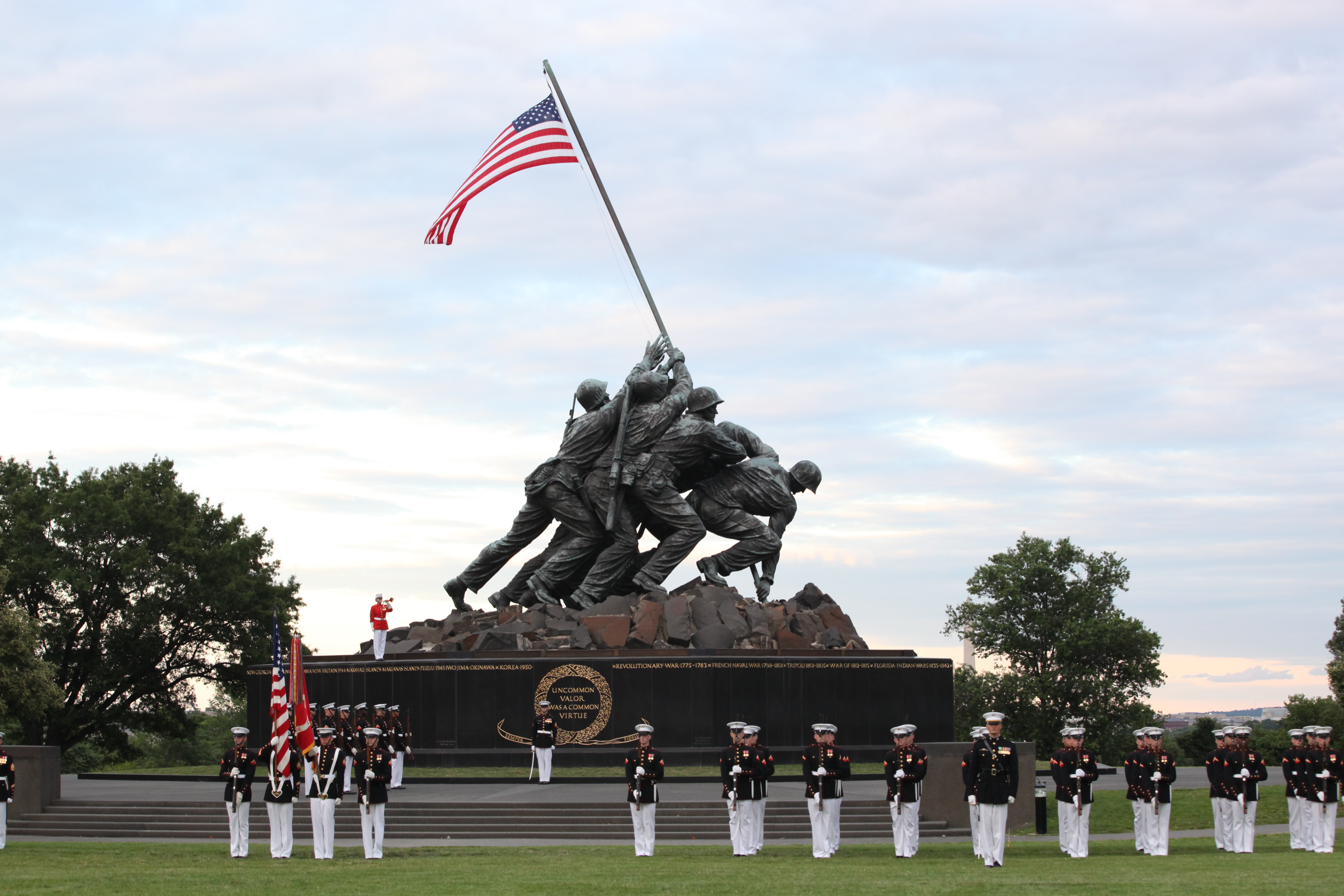 A U.S. Marine Corps ceremonial bugler, standing on monument, plays taps as an honor guard presents the colors during the Sunset Parade June 5, 2012, at the Marine Corps War Memorial in Arlington, Va. Sunset Parades are held at the memorial every Tuesday during the summer months.